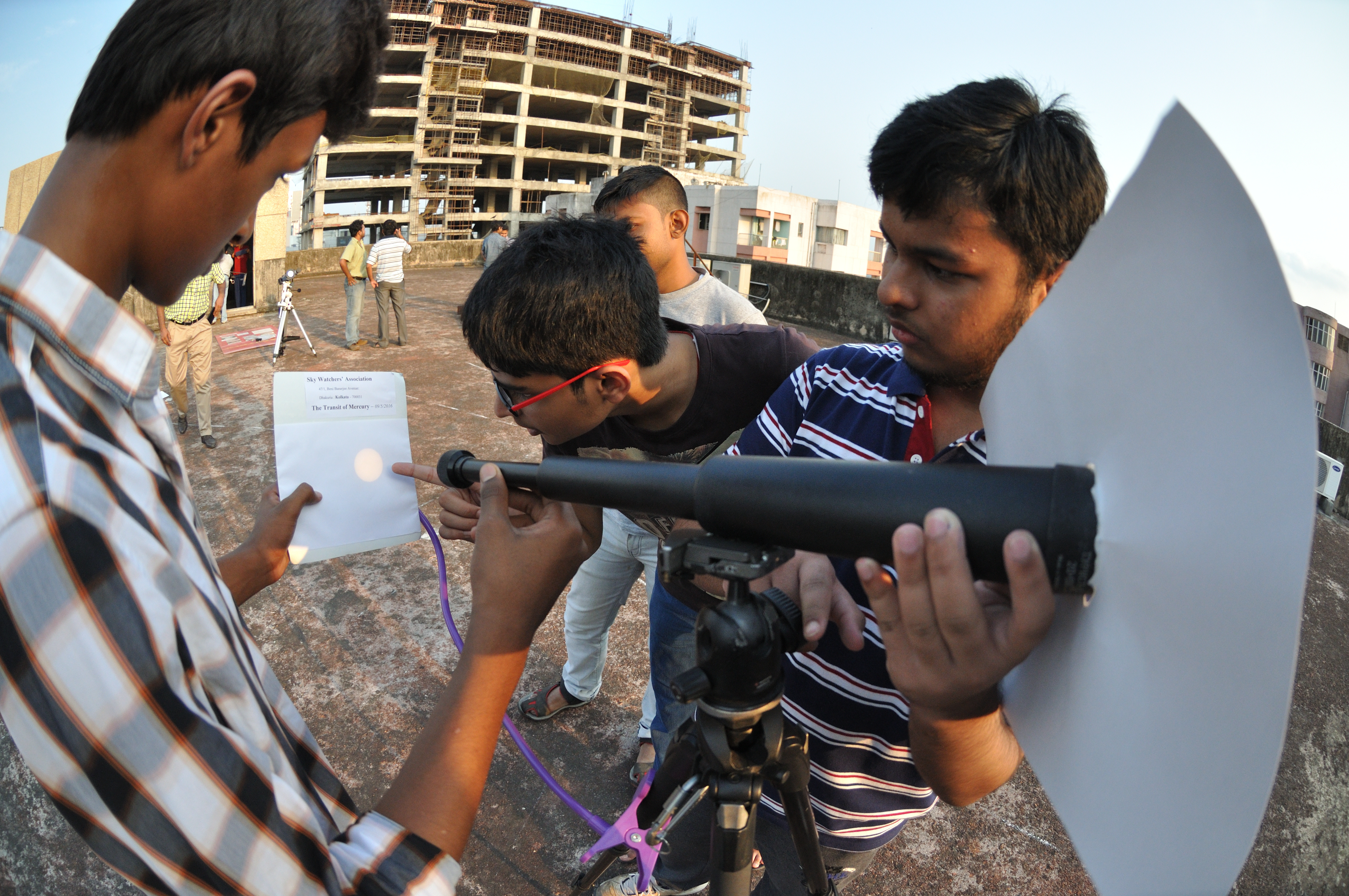 This photograph has been taken during the observance of Mercury Transit across the Sun (on 9th May 2016). It was a part of the Orientation-cum-selection Camp for the XXI International Astronomy Olympiad (2nd May to 17 May 2016) from Indian participation. It was organized by the National Council of Science Museums (NCSM), Ministry of Culture, Govt. of India at their Bidhan Nagar campus, Kolkata.